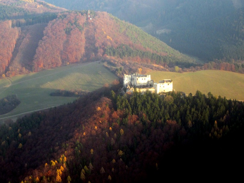 Aerial view of Lietava Castle